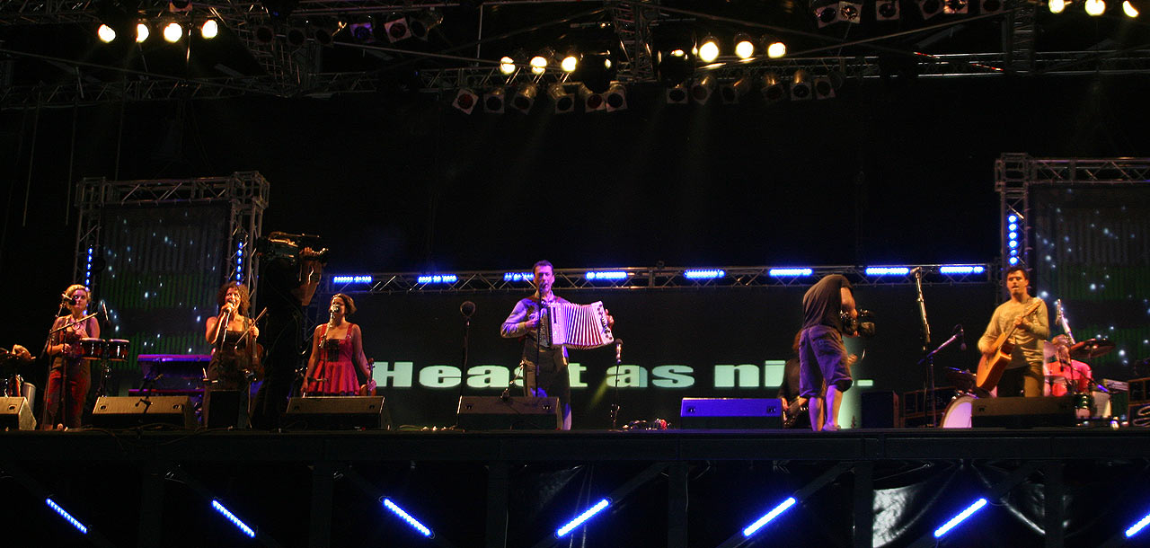 Austrian musician Hubert von Goisern at the Donauinselfest 2007